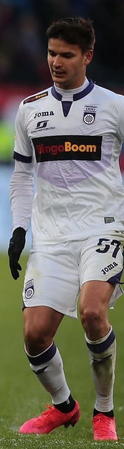 Vyacheslav Krotov with FC Ufa in a game against PFC CSKA Moscow.